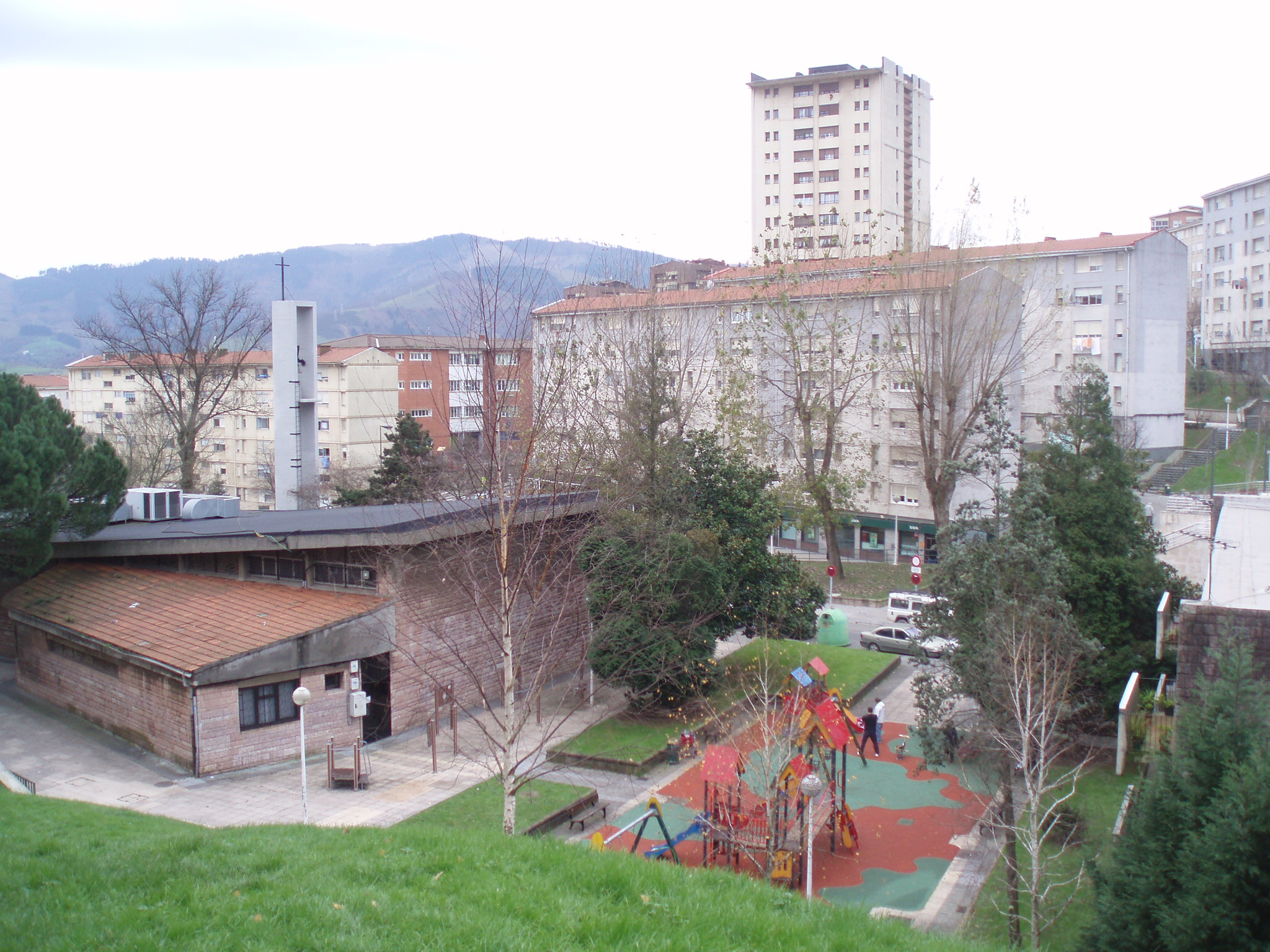 Otxarkoaga district (Bilbao).